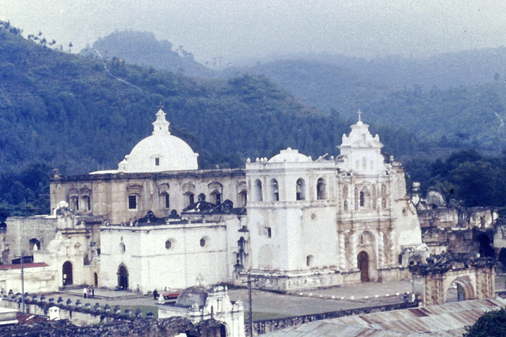 Antigua cathedral